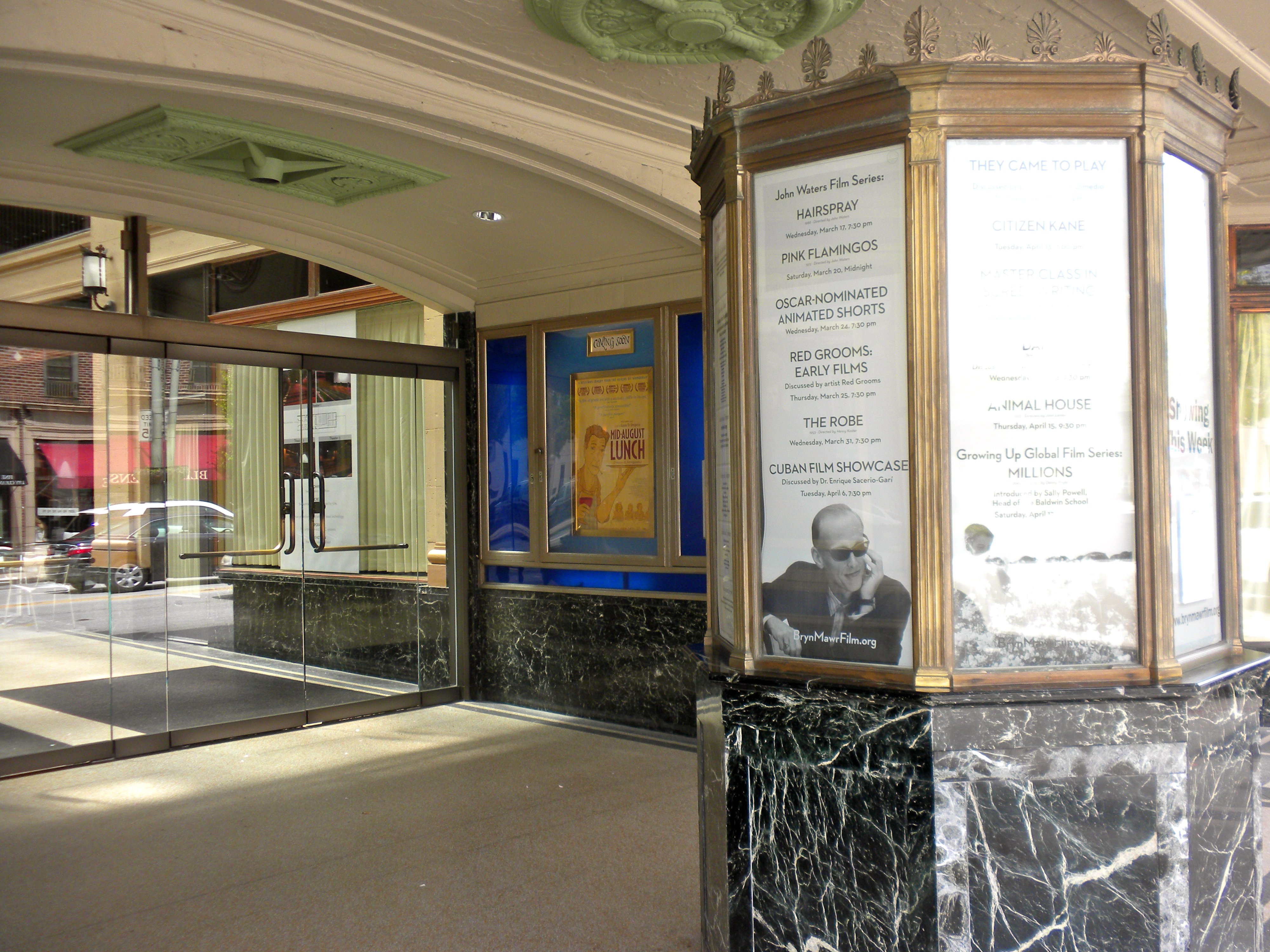 Seville Theatre (entrance) on the NRHP since December 28, 2005. At 822–826 West Lancaster Avenue in the CDP Bryn Mawr (near the College) in Lower Merion Township, Montgomery County, Pennsylvania. Now home to the Bryn Mawr Film Institute.